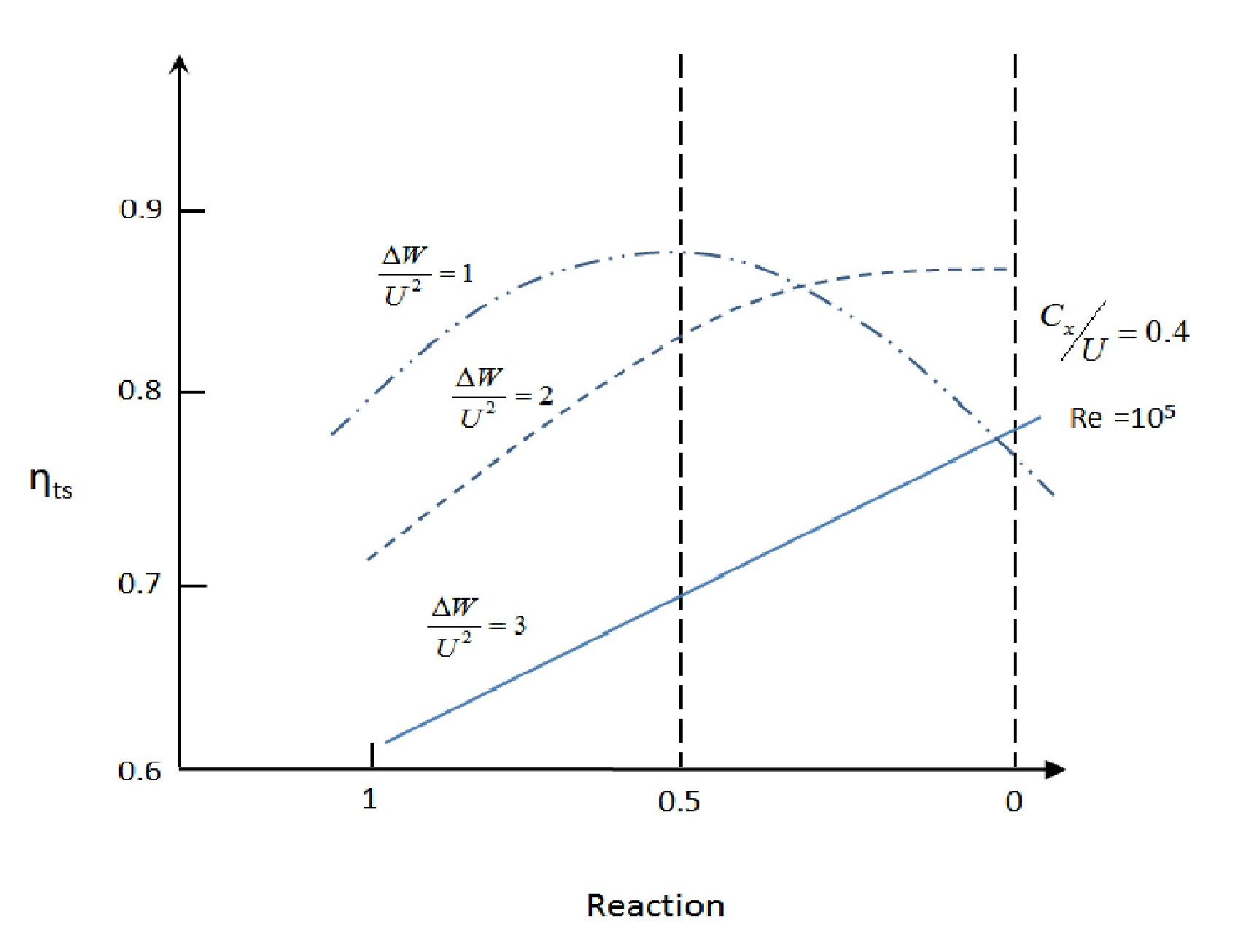 This figure relates the degree of reaction to efficiency of turbo-machine.